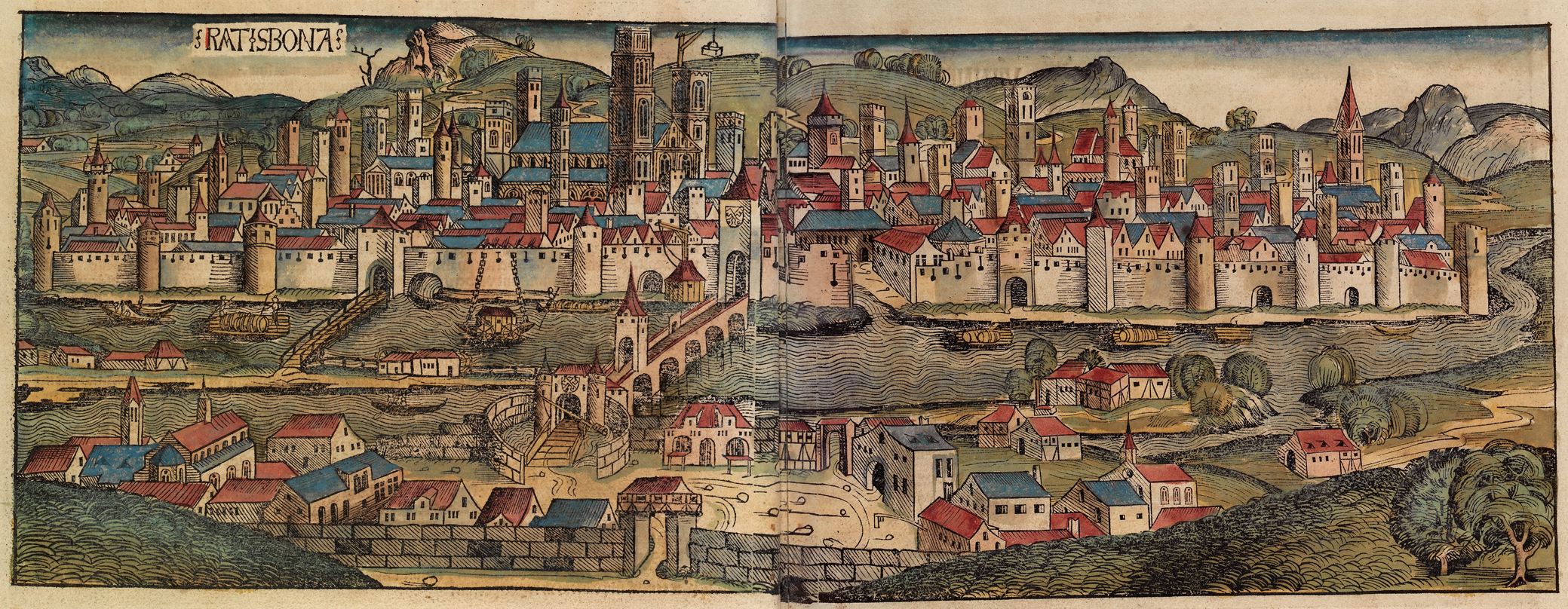 This is a part of a scan of an historical document: Title: Schedelsche Weltchronik or Nuremberg Chronicle